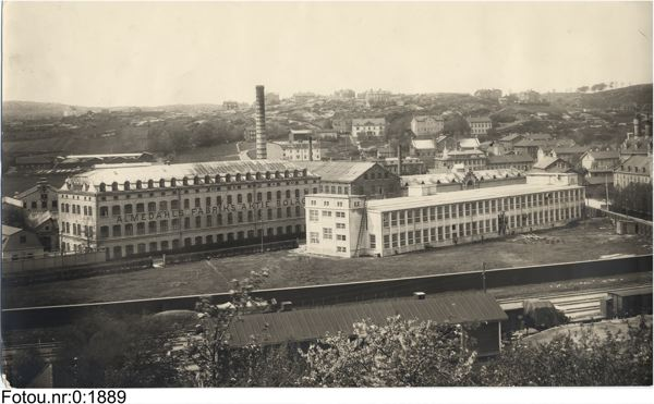 Almedahls cotton mill in Gothenburg, Sweden. View from the east.